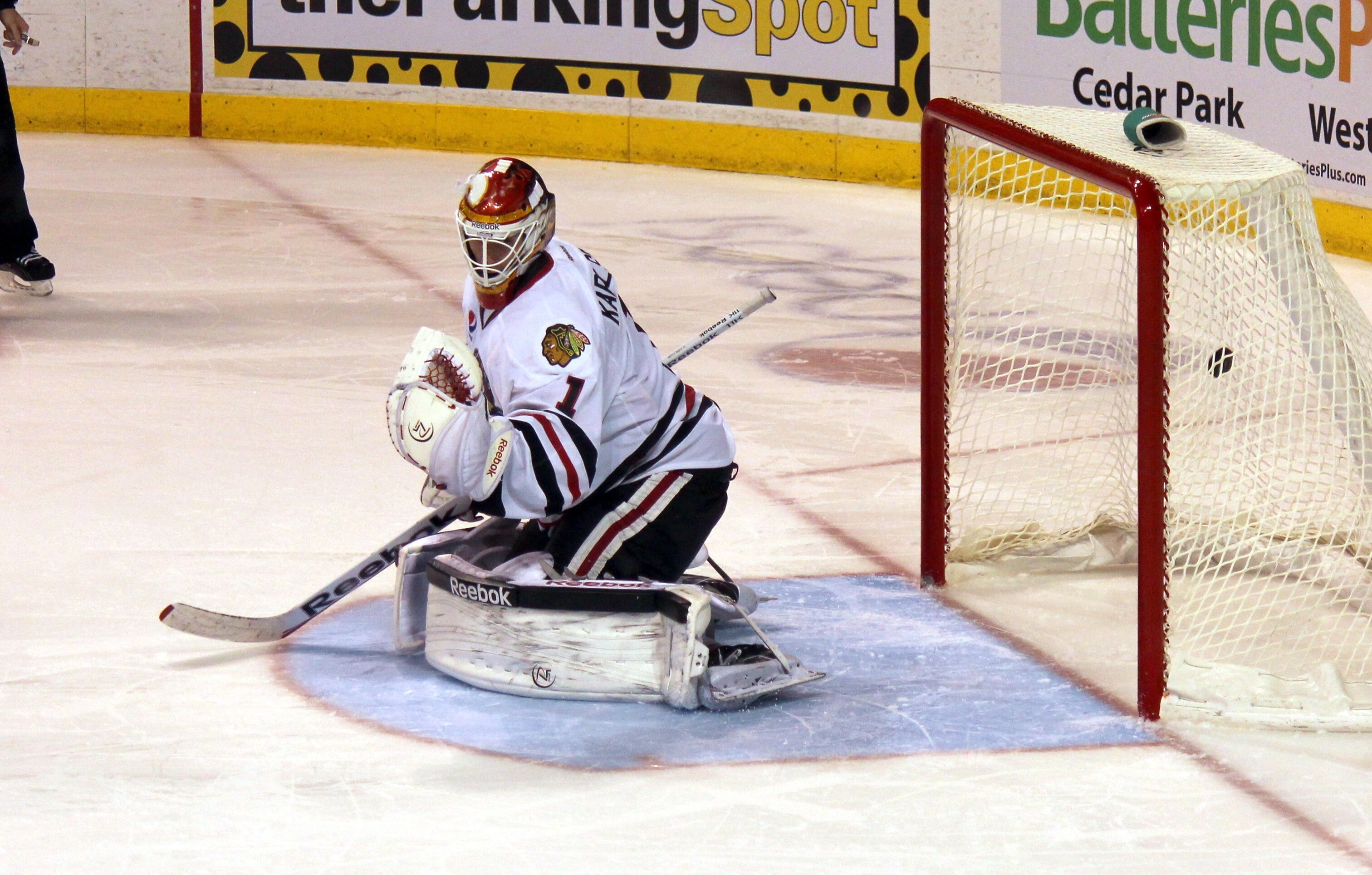 Henrik Karlsson of the Rockford IceHogs